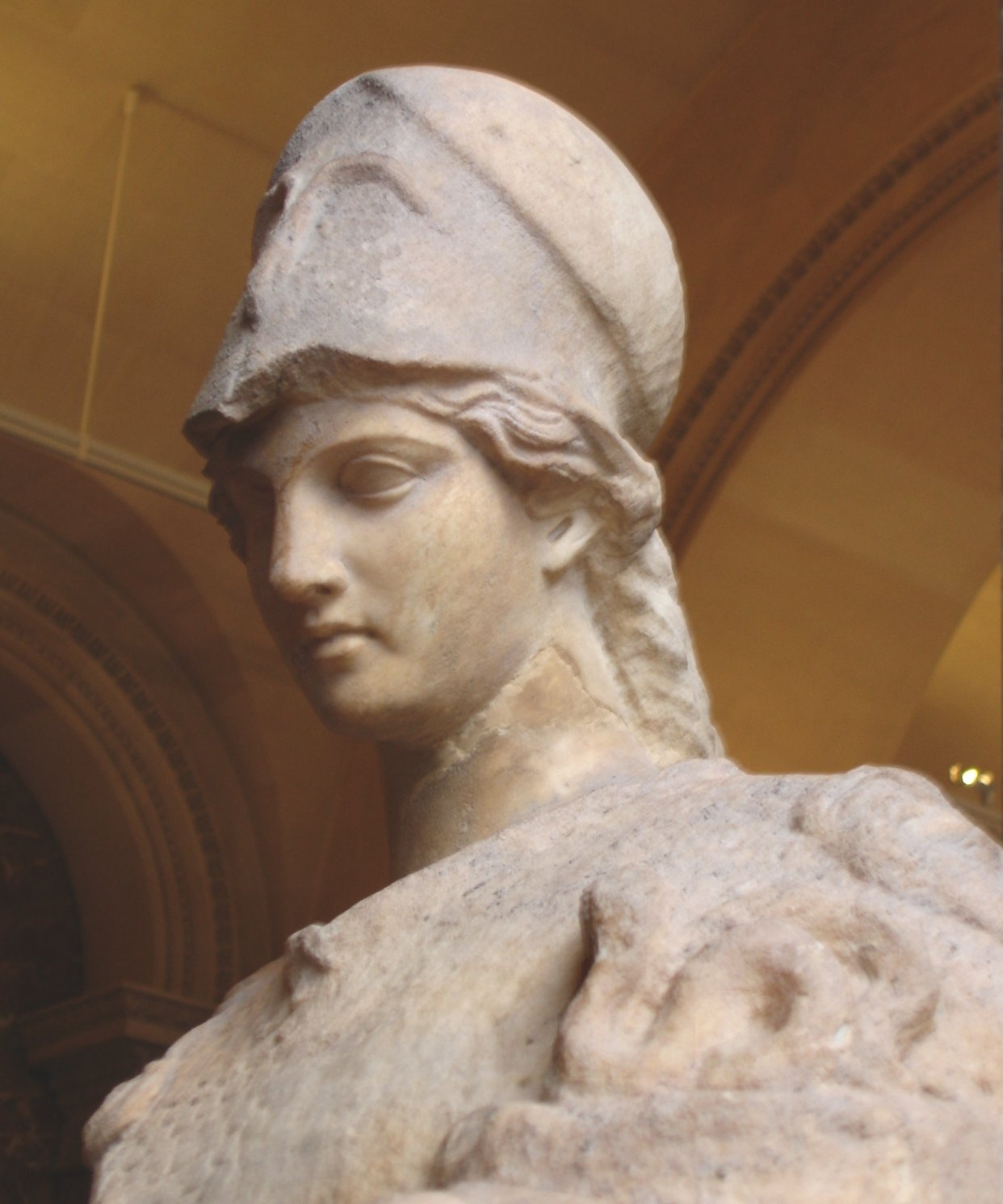 Helmeted Athena holding the snake Erichthonios in a cista (basket), detail. Roman copy of the Imperial period after a Greek original, perhaps the statue of Athena Hephaestia by Alcamenes.